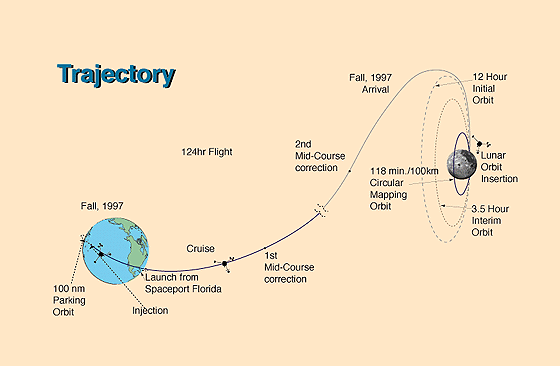 Path of the Lunar Prospector spaceprobe Source: NASA